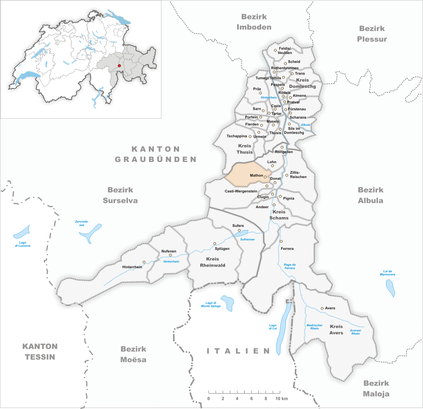 Municipality Mathon